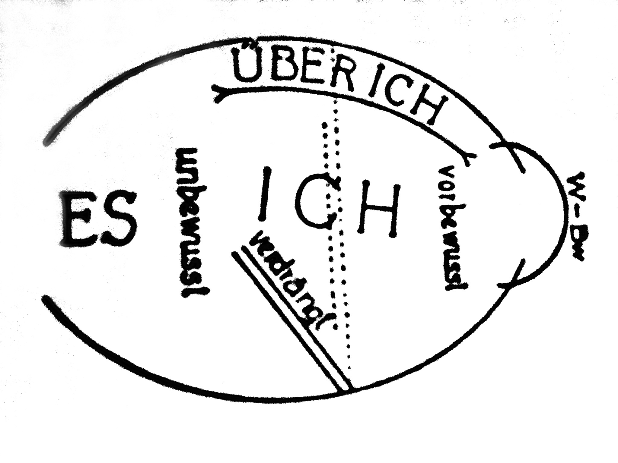 Sigmund Freud's graph with second topography (Id, Ego and Super-Ego), published in 1933 in his "Neue Folge der Vorlesungen zur Einführung in die Psychoanalyse", Kapitel 31 (New Introductury Lectures on Psycho-Analysis, chapter 31)